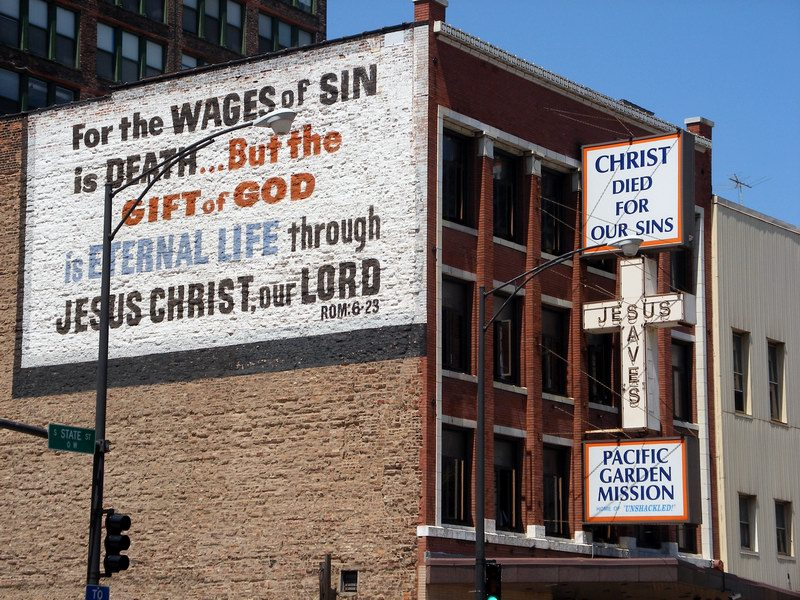 Pacific Garden Mission, a homeless shelter in Chicago.